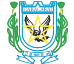 Coat of arms of the city of Caracaraí, Roraima, Brazil.